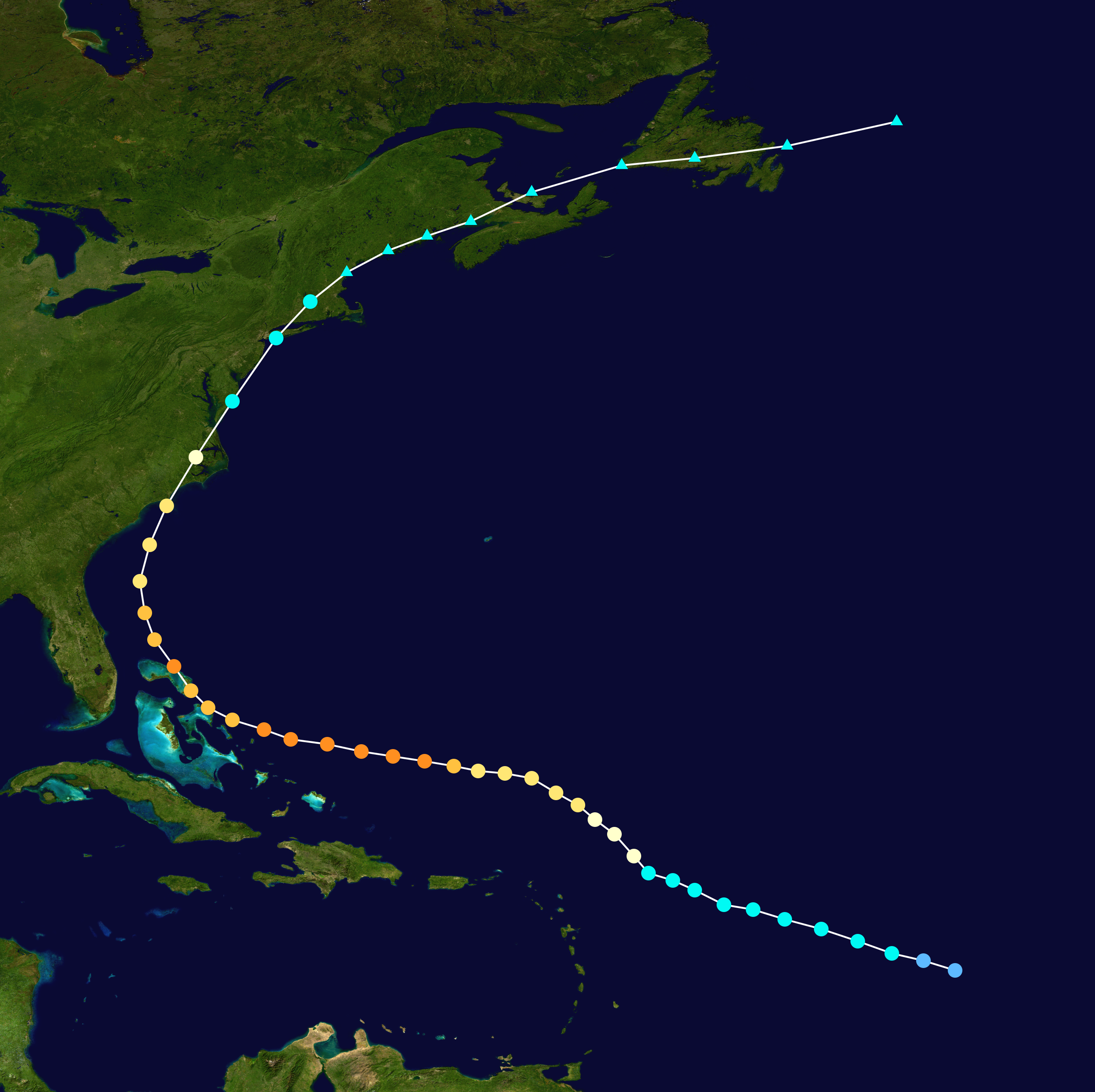 Track map of Hurricane Floyd of the 1999 Atlantic hurricane season. The points show the location of the storm at 6-hour intervals. The colour represents the storm's maximum sustained wind speeds as classified in the Saffir–Simpson scale (see below), and the shape of the data points represent the nature of the storm, according to the legend below. Saffir–Simpson scale Tropical depression≤38 mph≤62 km/h Category 3111–129 mph178–208 km/h Tropical storm39–73 mph63–118 km/h Category 4130–156 mph209–251 km/h Category 174–95 mph119–153 km/h Category 5≥157 mph≥252 km/h Category 296–110 mph154–177 km/h Unknown Storm type Tropical cyclone Subtropical cyclone Extratropical cyclone / Remnant low / Tropical disturbance / Monsoon depression